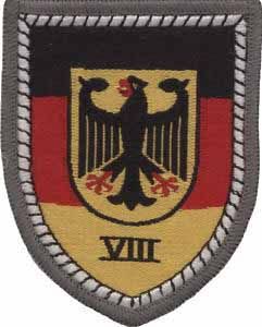 coat of arms Wehrberichskommando VIII (WBK VIII) of the Bundeswehr (Armed Forces of the Federal Republic of Germany). → Remarks on naming and categorization scheme